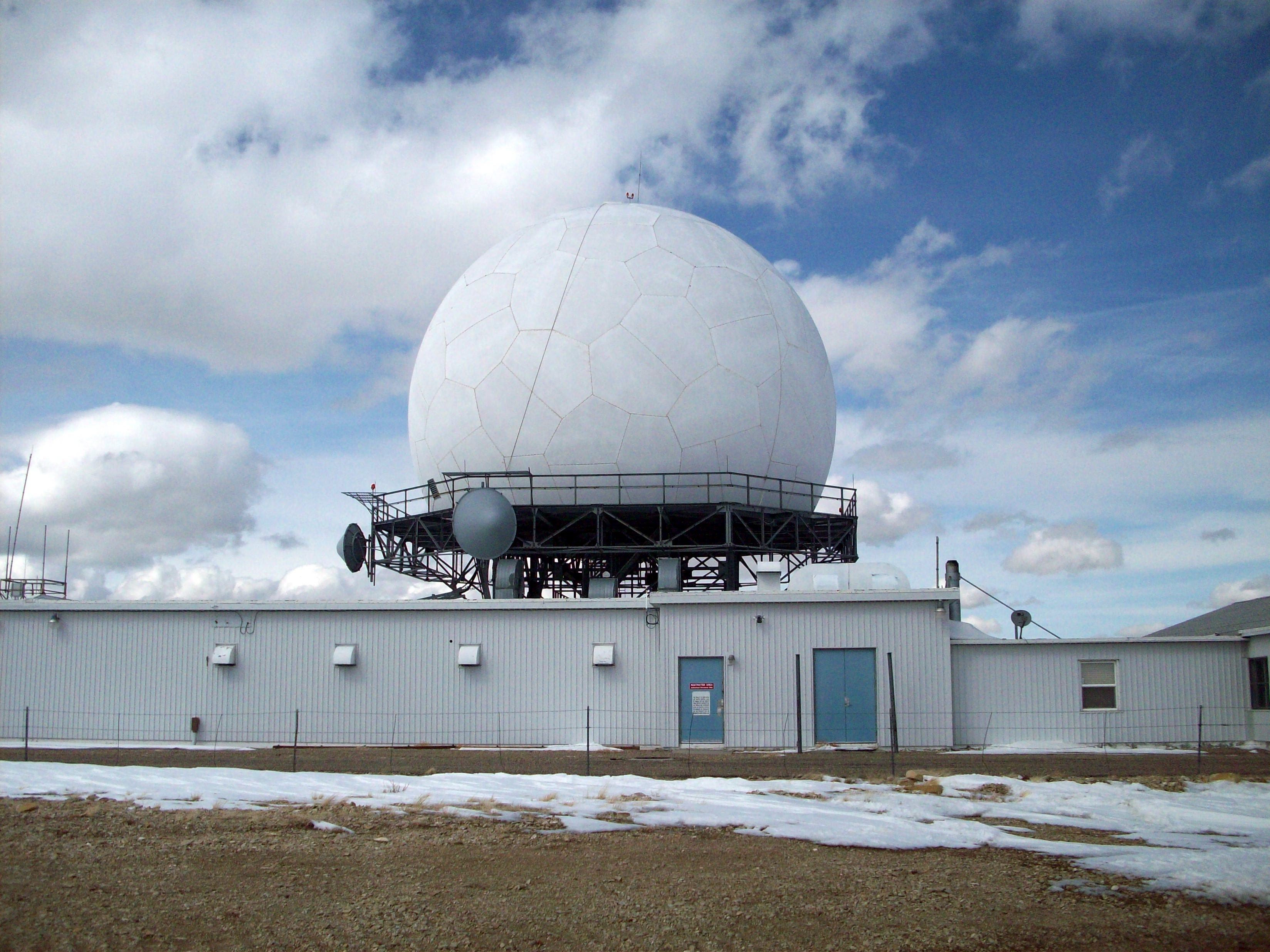 Aspen Mountain Radar Site, March 2008. South of Rock Springs, Wyoming.